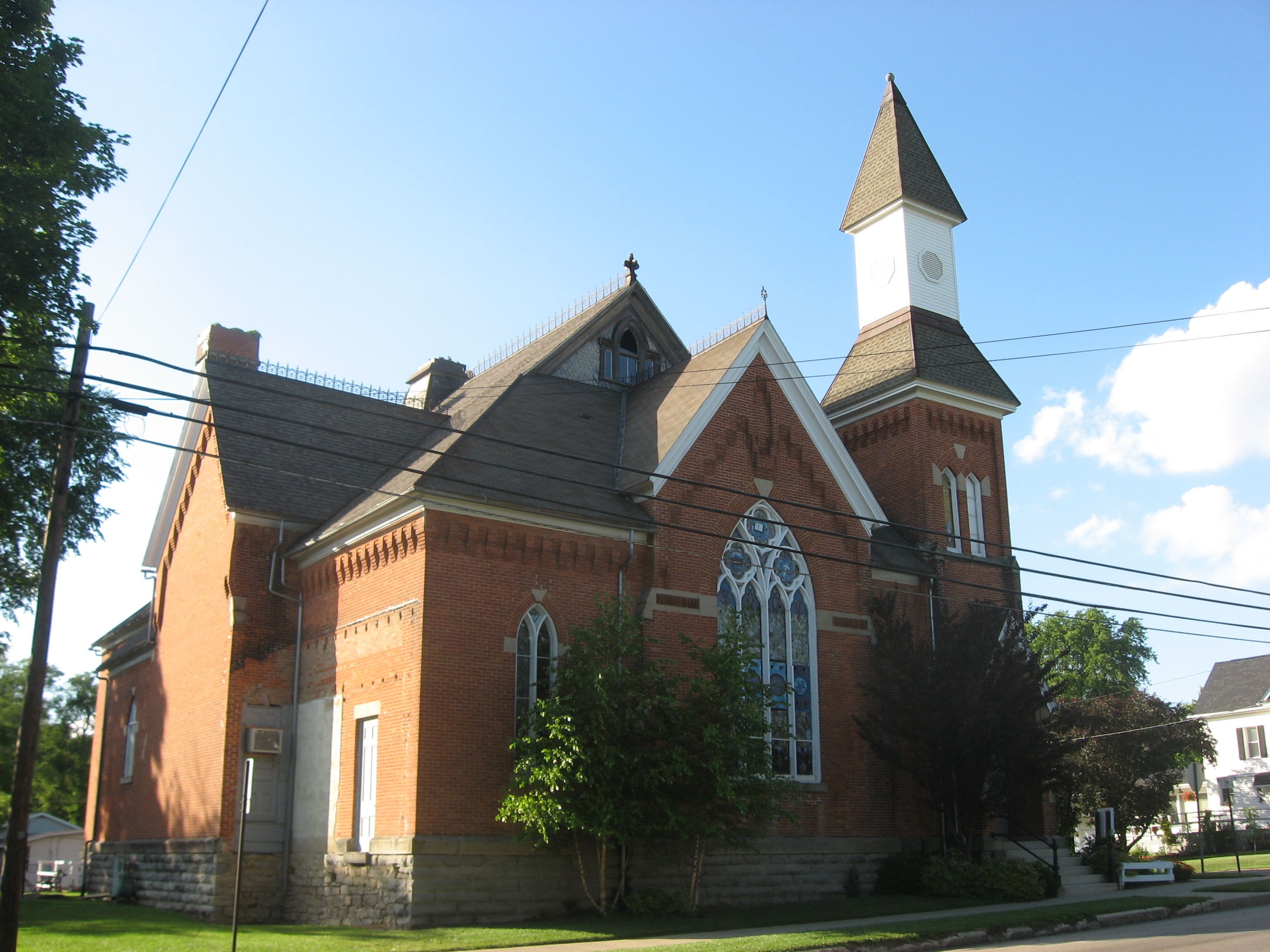 Front and southwestern side of the Mechanicsburg Baptist Church, located on the western corner of the intersection of Sandusky (State Route 4) and Walnut Streets in Mechanicsburg, Ohio, United States. Built in 1890, it is listed on the National Register of Historic Places.